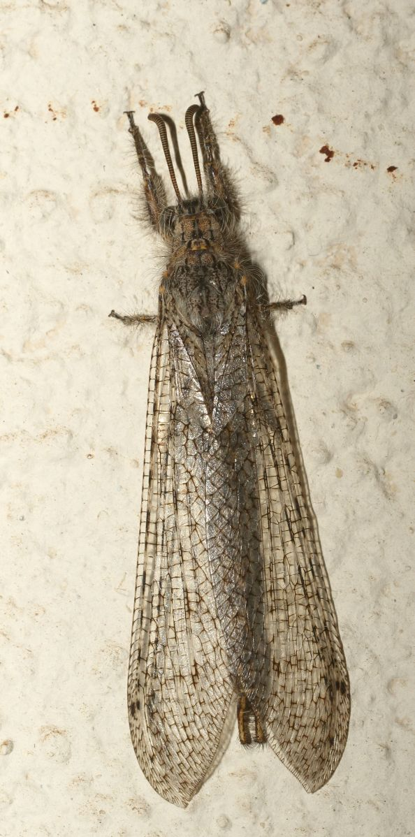 Centroclisis vitanda, an antlion found at Rietpoort Guest House, Britstown District, Northern Cape. LacewingMAP record no. 010184